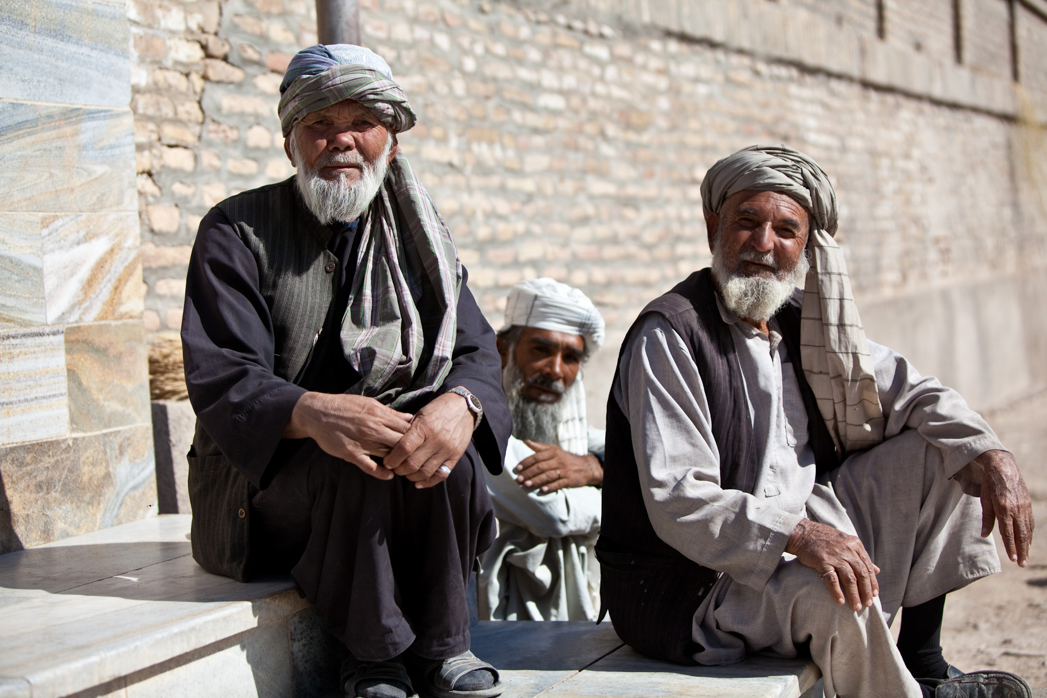 Herat